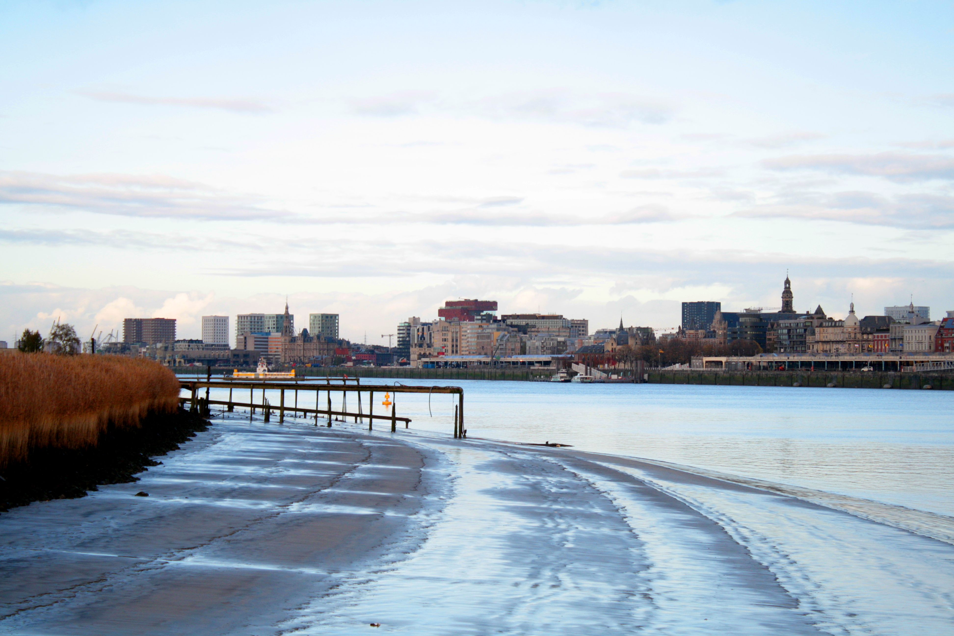 The skyline of Het Eilandje (neighborhood) in Antwerp (postal code 2000), picture taken from Linkeroever (the left bank of Antwerp) (postal code 2050) on the 11th of November 2017. This photo of immovable heritage has been taken in the Flemish Region